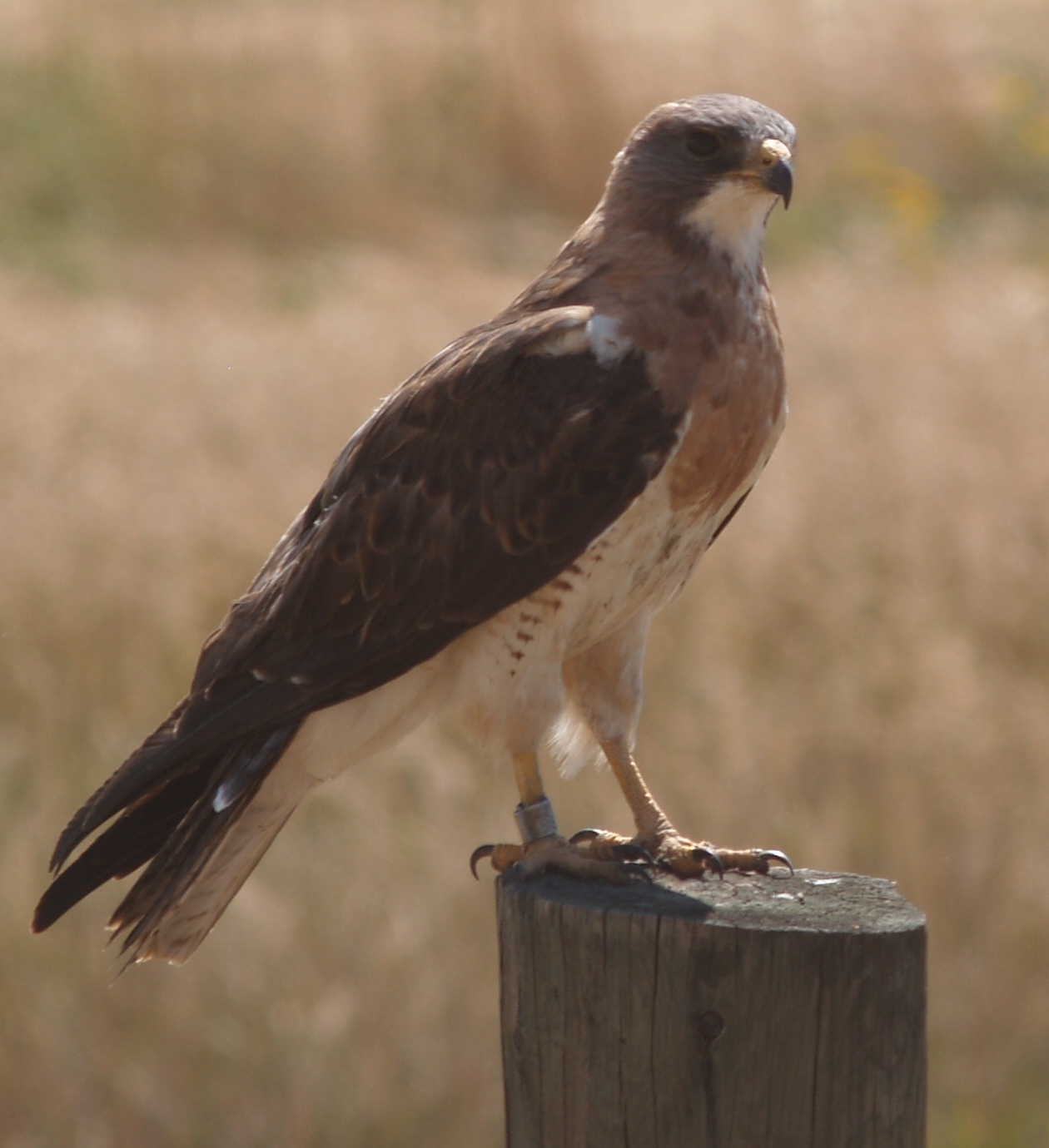 Swainson's Hawk Buteo swainsoni, Barr Lake State Park, Colorado.